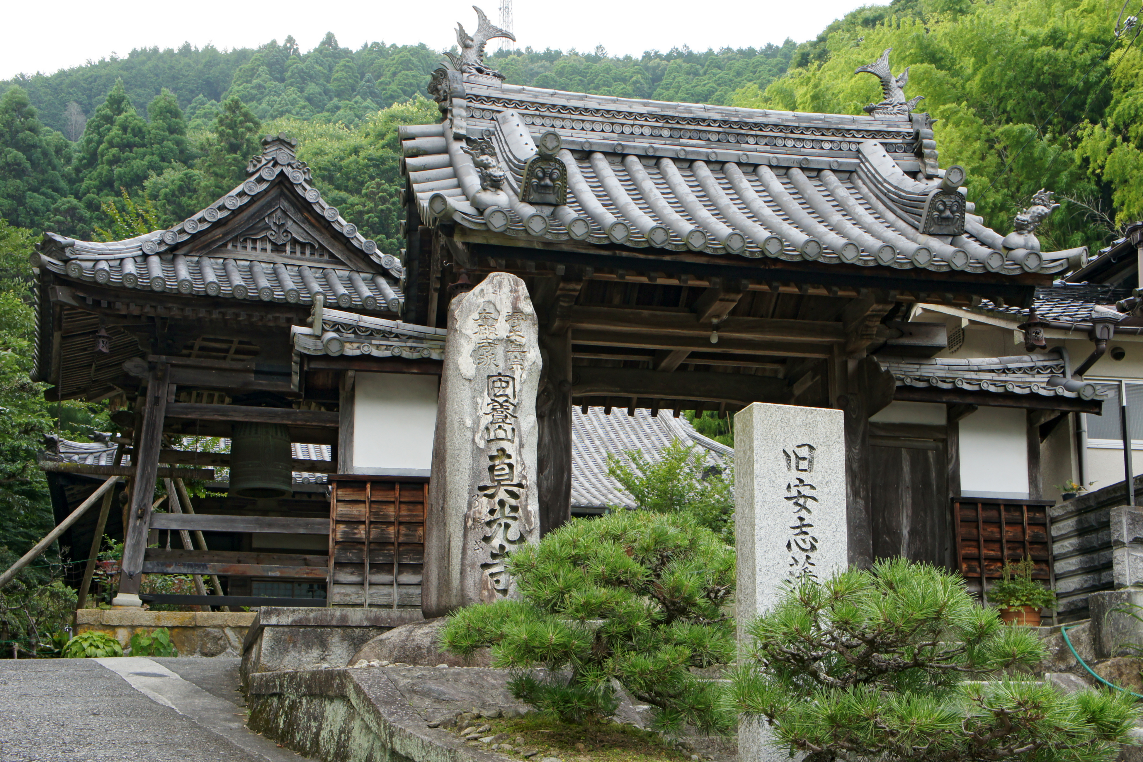 Former Anji-han Jin'ya Omotemon (The main gate of former Anji Domain's Jin'ya) in Himeji, Hyogo prefecture, Japan.